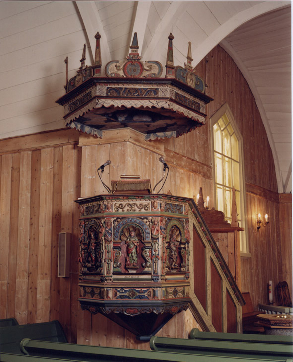 Pulpit in Brandval church by woodcarver Lauritz Lauritzen from 1651, painted by Thomas Blix in 1728.